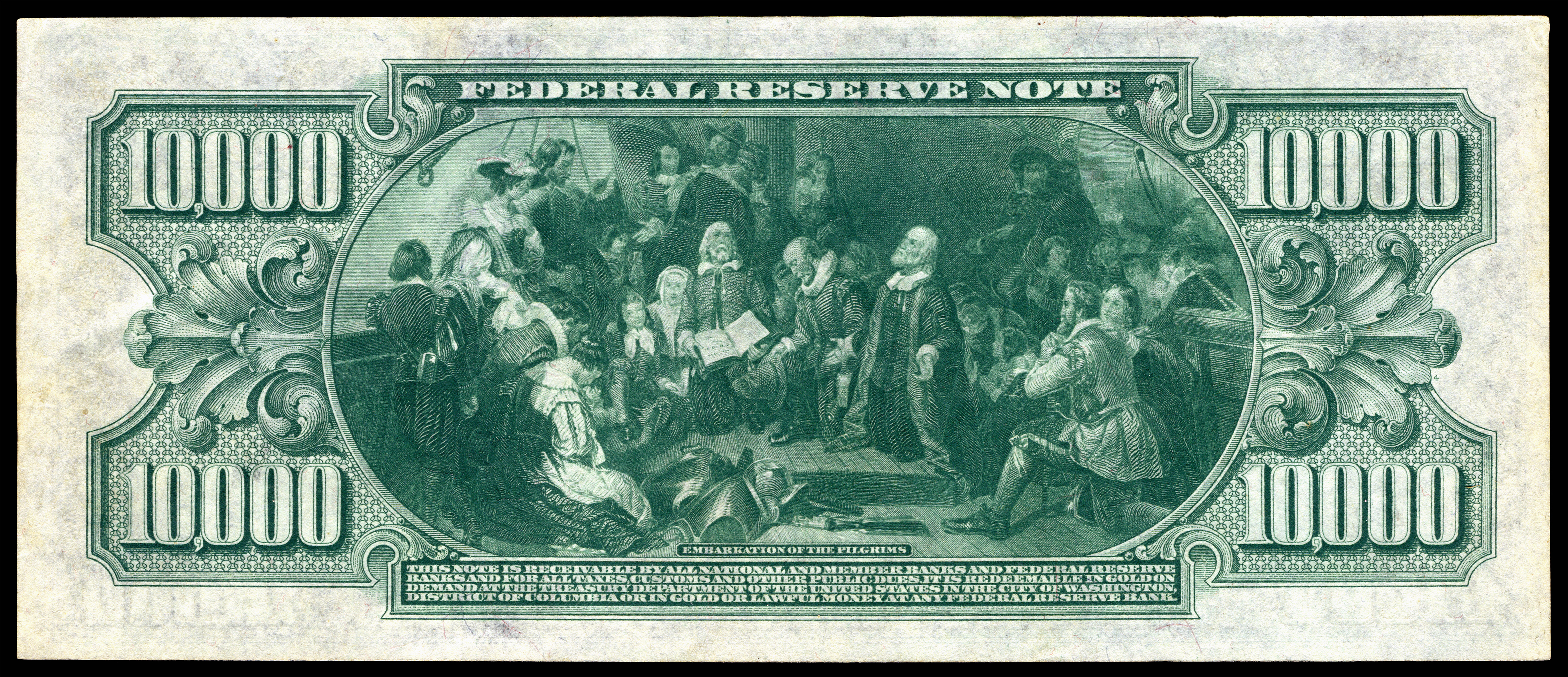 US-$10000-FRN-1918-Fr-1135d (reverse only)